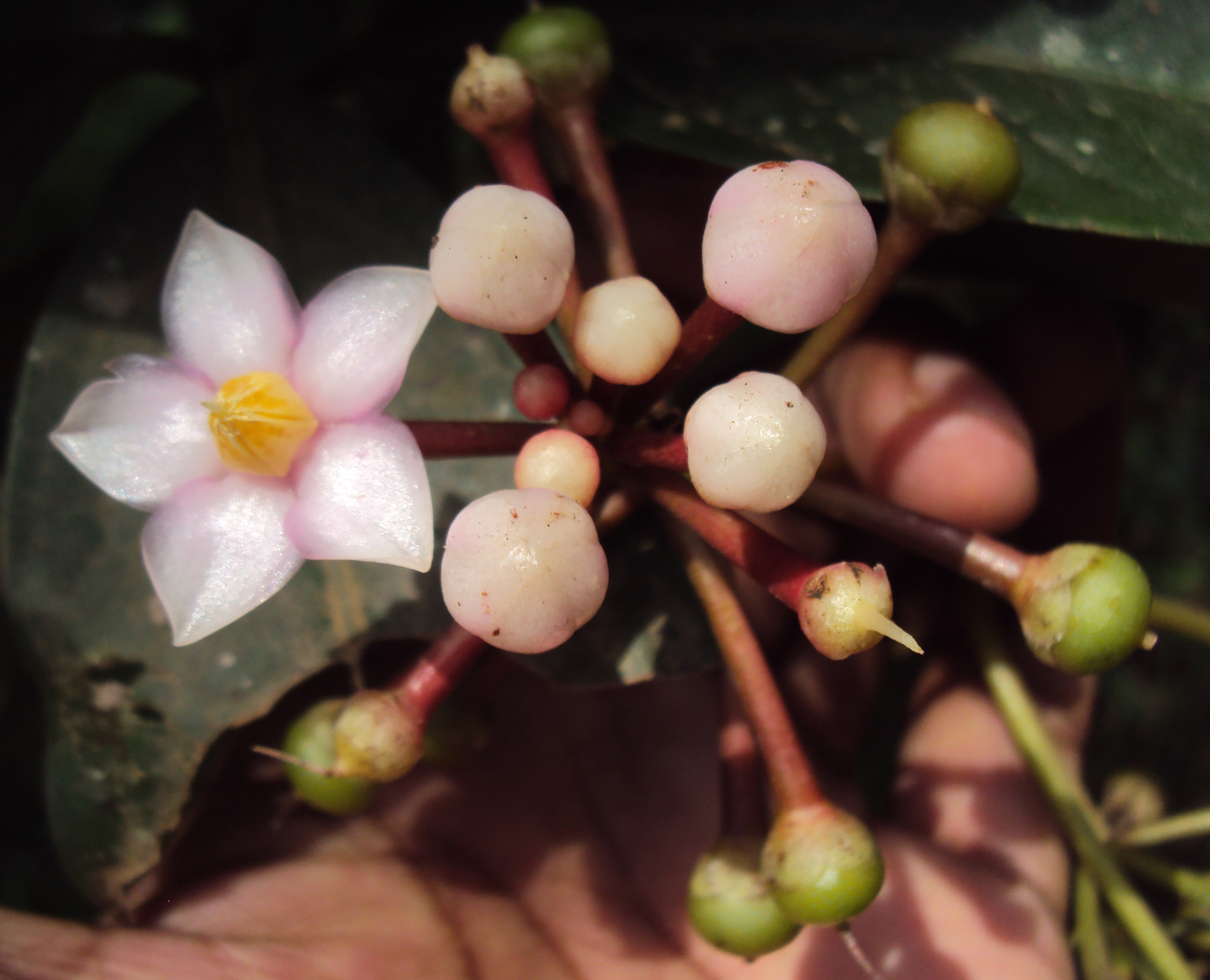 Ardisia solanacea